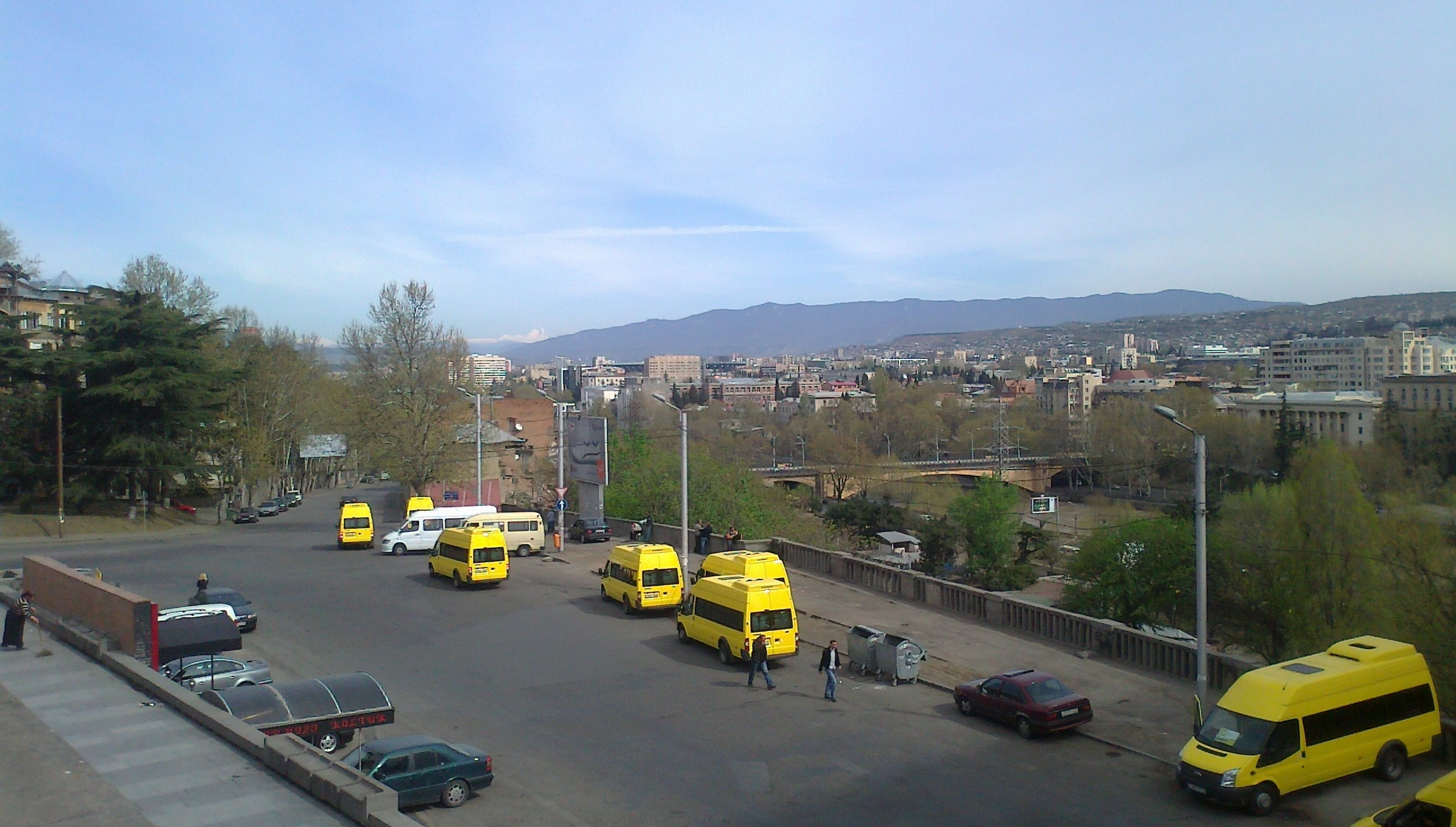 The so-called "yellow" minibuses close to M. Javakhishvili Street. A view from Square of the Roses, Tbilisi. The Caucasus mountains are seen in the distant left background.